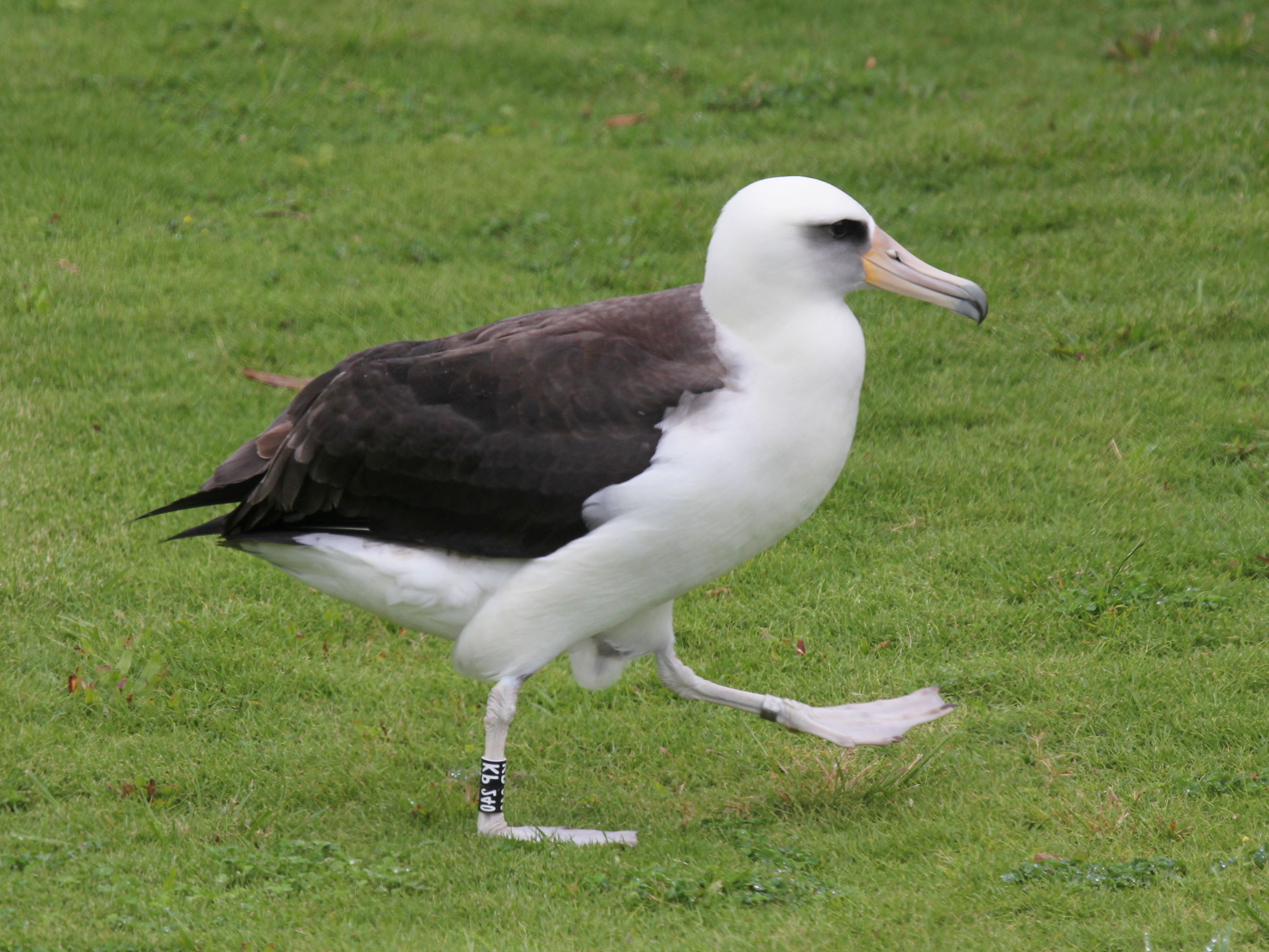 Laysan Albatross (Phoebastria immutabilis) - Princeville, Kauai, Hawaii.